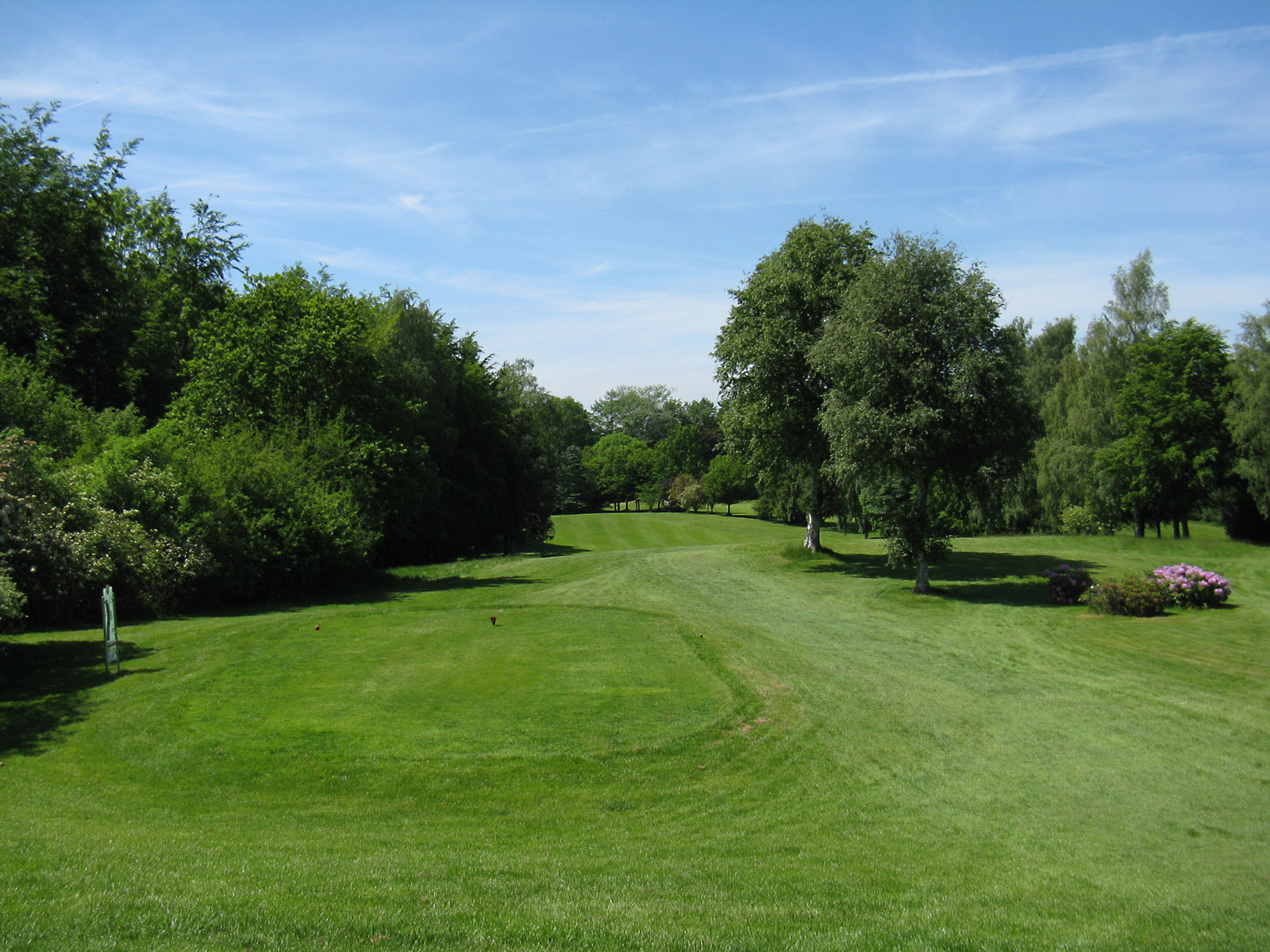 View from the Tee of Hole 13 of Golf Club Kitzeberg in Kiel, Germany